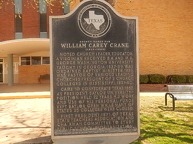 I took photo of William Carey Crane historical marker in Crane, TX, with Nikon camera.